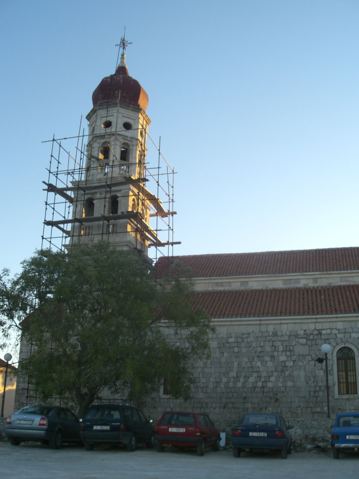 Church in Betina (island of Murter, Croatia)